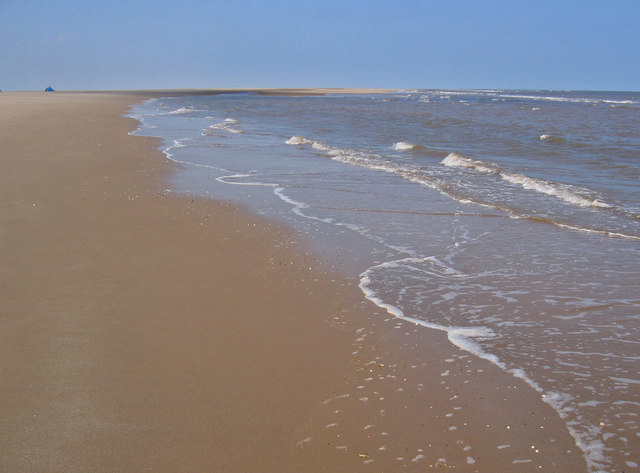 Out along The Shoreline